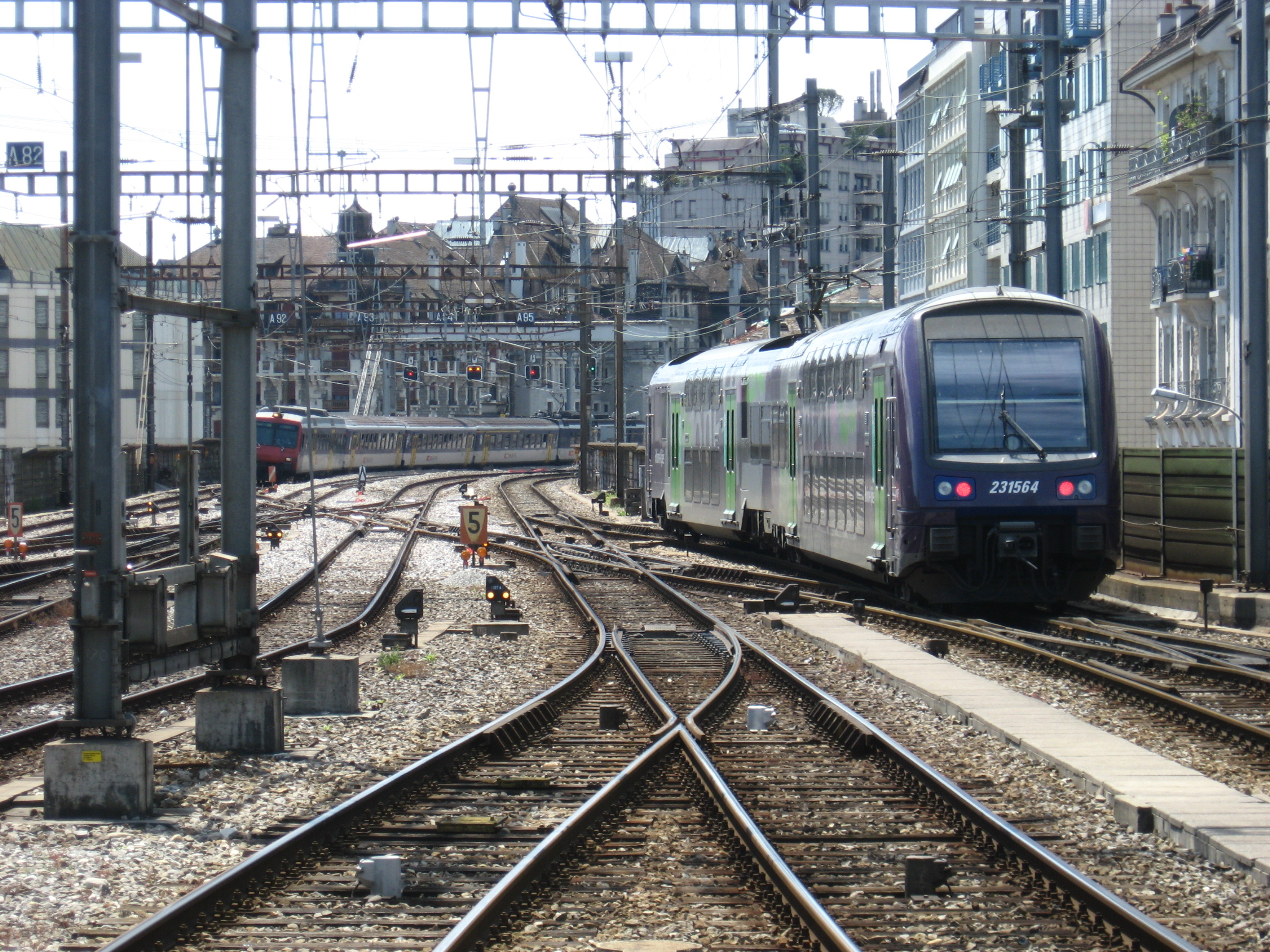 French TER train (1500 V direct current) leaving Cornavin station. On the left a Zwiss train. (15 kV alternating current)